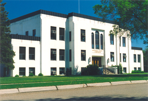 A view of the Roosevelt County Courthouse, Wolf Point, Montana, USA